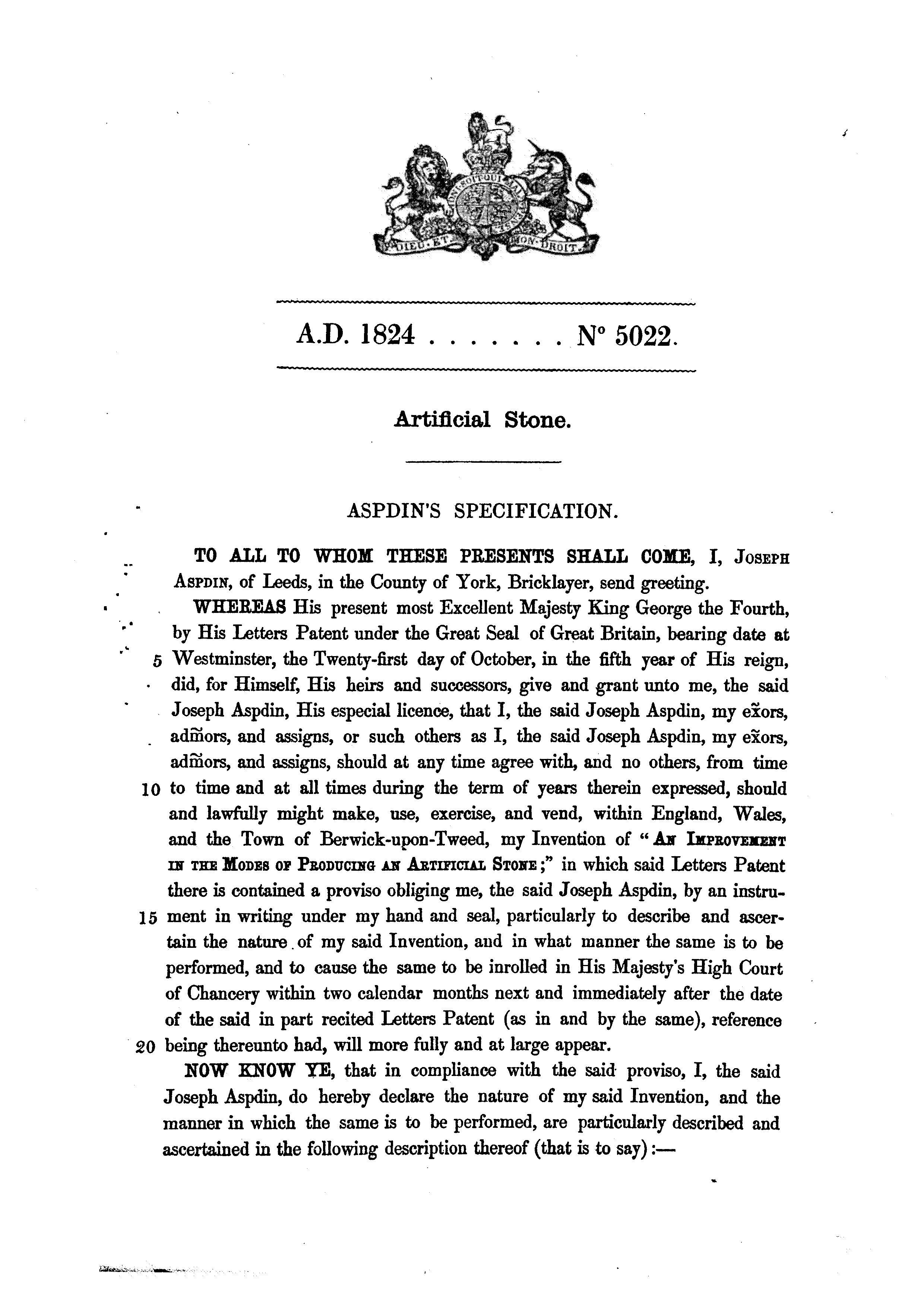 Patent nr.: BP 5022 Patent title: An Improvement in the Mode of Producing an Artificial Stone